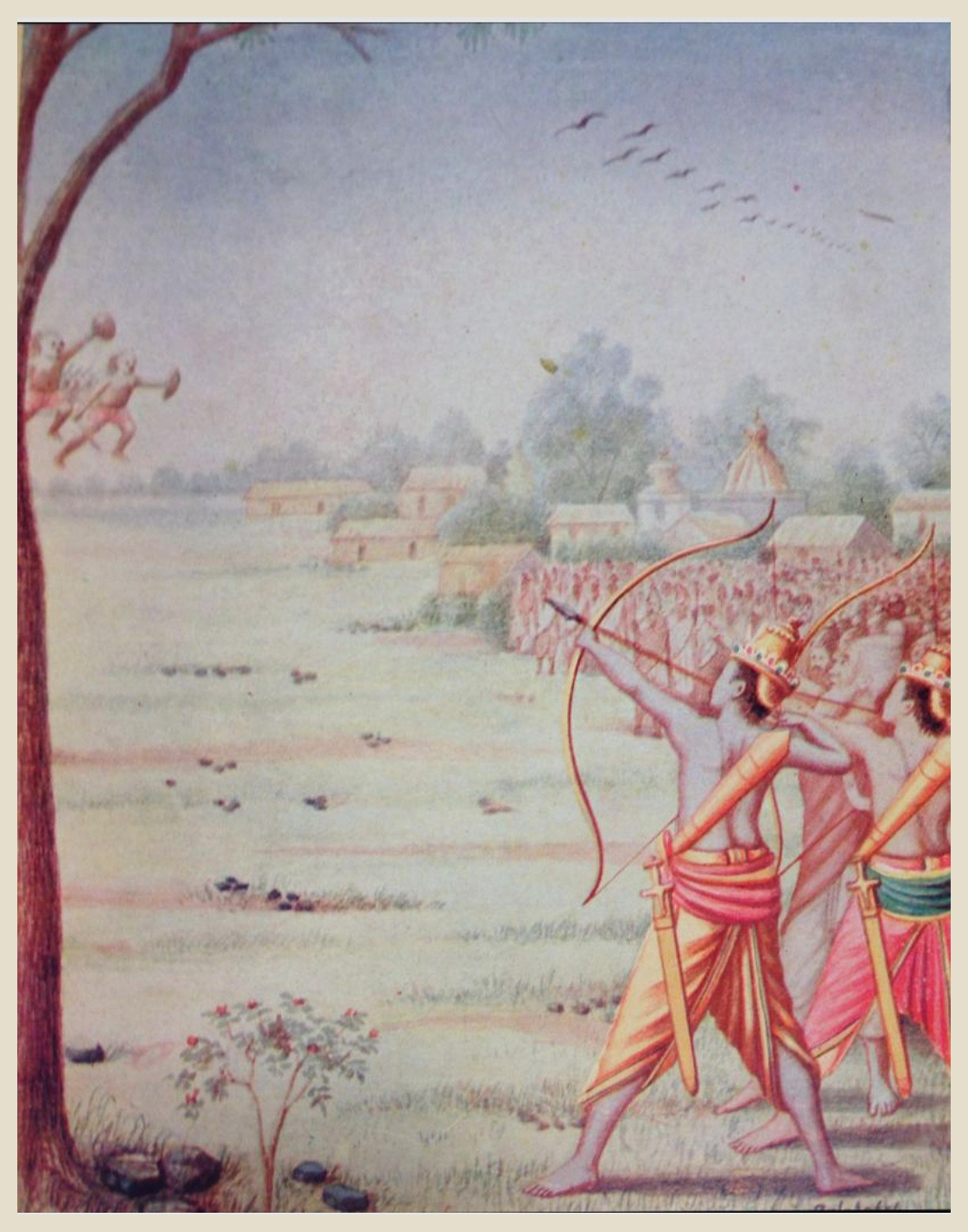 Chitra Ramayana (Illustrated Ramayana) is a simplified story of the great Indian epic in Kannada. The type is bold and beautiful. The thick pages have become brittle and need careful handling. Printed by B. Miller, Superintendent, British India, Press, Mazgaon, Bombay. It was published by, Shrimat Balasaheb Pandit Pant Pratinidhi, chief of Aundh, at Aundh, Satara district. The Kannada version is by Ramachandra Madhwa Mahishi